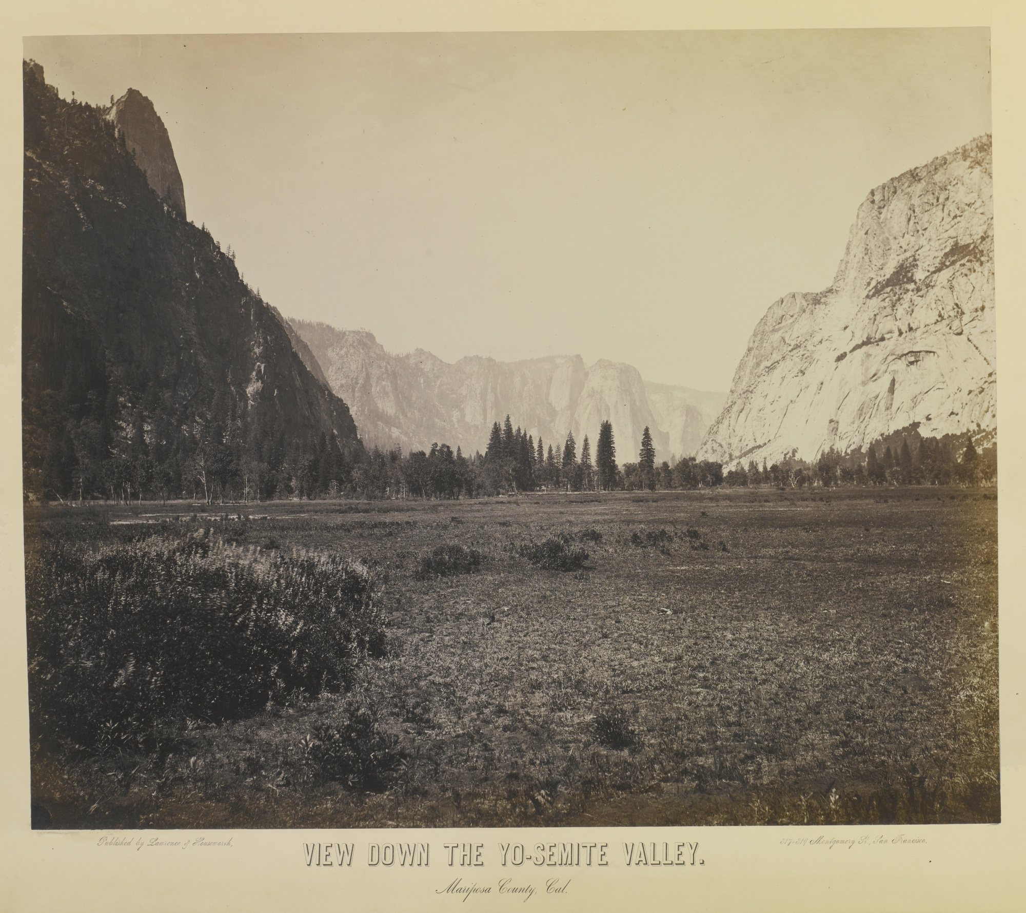 One of 30 mammoth-plate albumen prints of Yosemite Valley, Mariposa County, and the Big Trees, Calaveras County, California taken in 1864 by Charles Leander Weed and published prior to 1867 by Lawrence & Houseworth. Weed is widely believed to have been the first photographer to work in Yosemite. For his 1864 photographic expedition to the Valley, Weed was equipped with a large camera and large glass plates, enabling him to produce these 22x28 inch mammoth-plate prints which won the first-place bronze medal at the 1867 Paris International Exhibition for their superior excellence. This complete collection sold at auction in 2012 for $374,500.